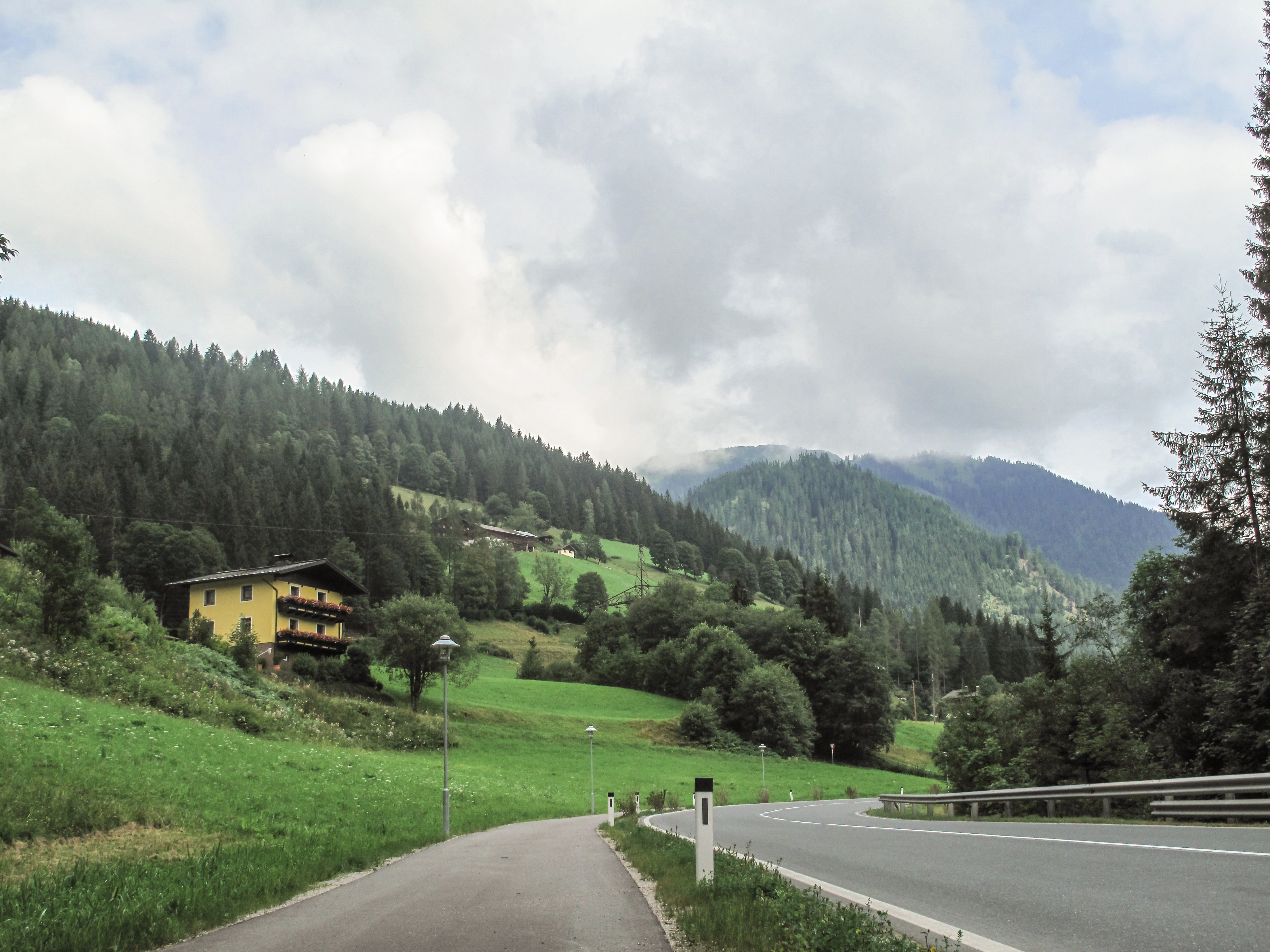 Between_Niederfritz_and_Sankt_Martin,_road-panorama_